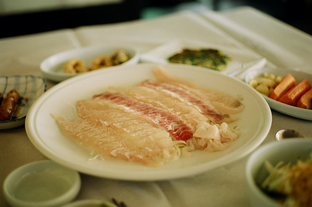 Hoe, Korean raw fish dish.